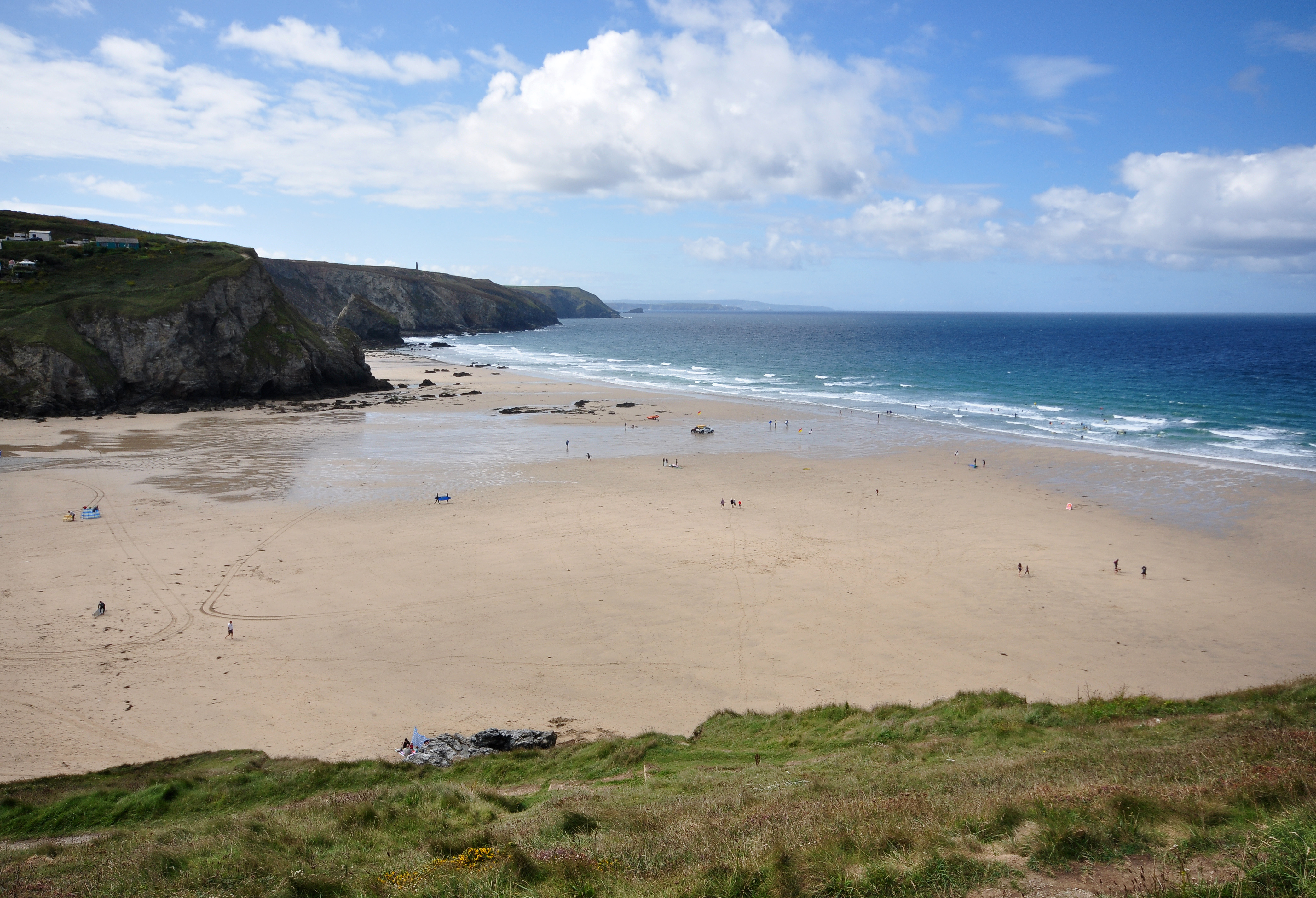 Porthtowan beach in Cornwall, at low tide. The North Cornwall coast stretches towards the Penwith peninsula in the distance.